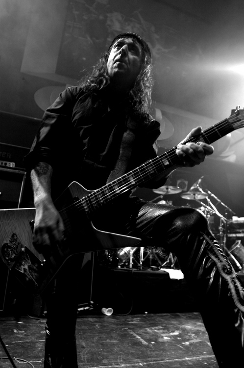 Phil Campbell Live at Reds, Edmonton, May, 2005